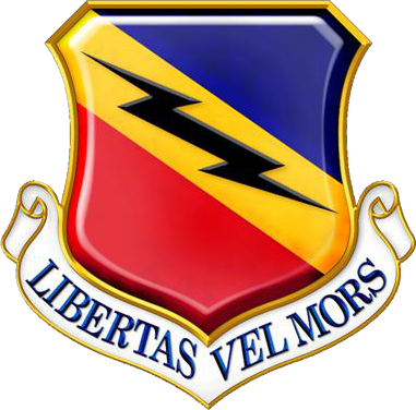 Insignia of the 388th Fighter Wing (U.S. Air Force). The emblem was approved on approved on 11 March 1955.